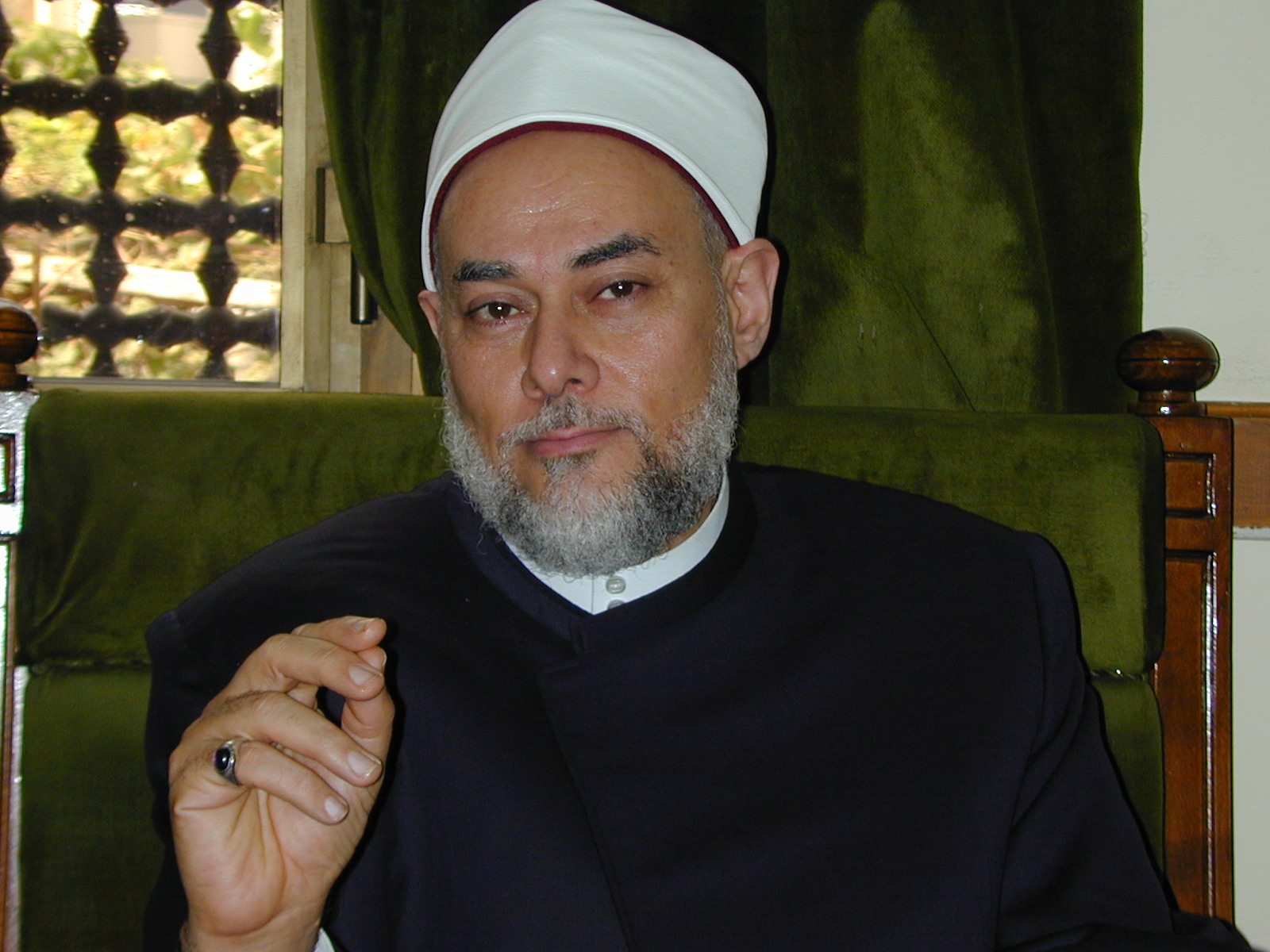 This is a portrait photograph of Ali Gomaa, the Grand Mufti of Egypt. The picture was take in 2004. It should be in the article titled: Ali Gomaa. dosiero:Ali Gomaa.jpg